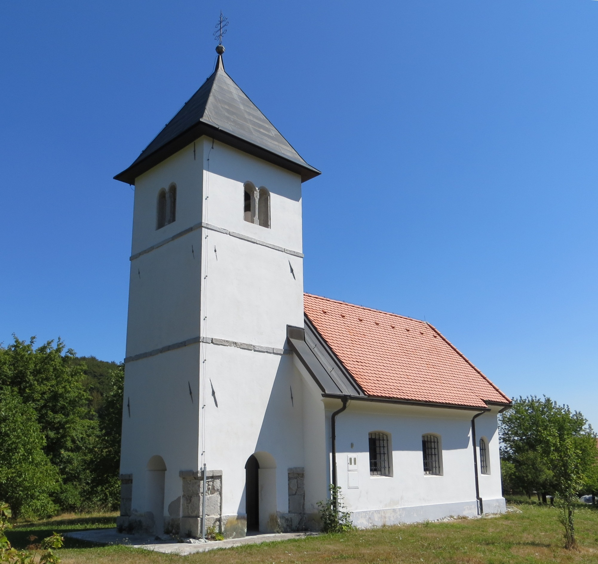 Church in Gornji Ig, Municipality of Ig, Slovenia